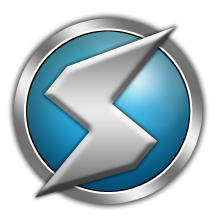 A lightning symbol and badge created in Adobe Photoshop, reminiscent of the Metroid video game series logo. Technical specifications: Operating system: Mac OS X v. 10.5.6 Created with: Adobe Photoshop CS3